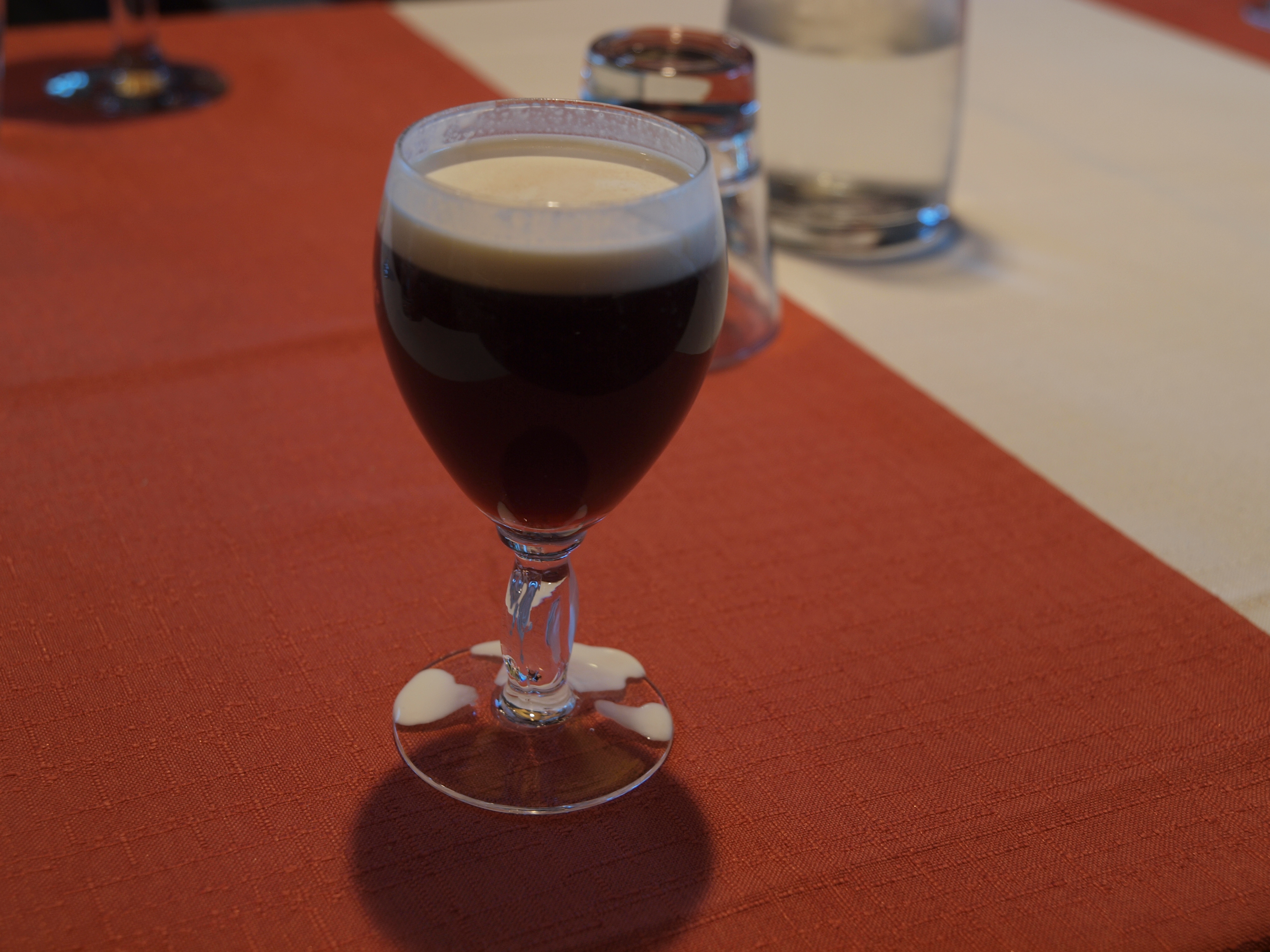 A glass of Irish Coffee, served at Café Piritta in Kallio, central-northern Helsinki, Uusimaa, Finland in late June 2015.